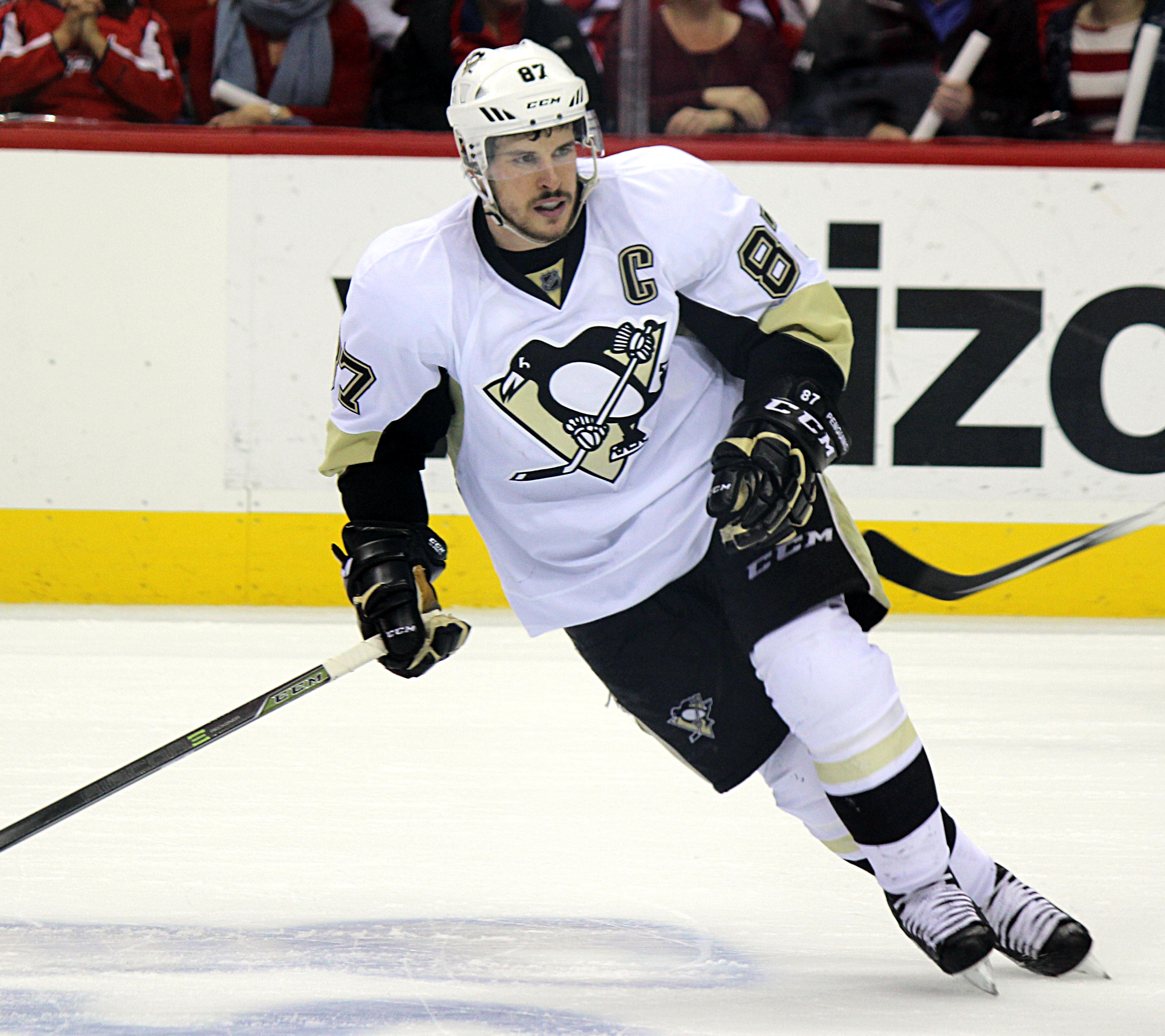 Pittsburgh Penguins captain Sidney Crosby during a playoff game against the Washington Capitals, Thursday, April 28, 2016 at Verizon Center in Washington, D.C.